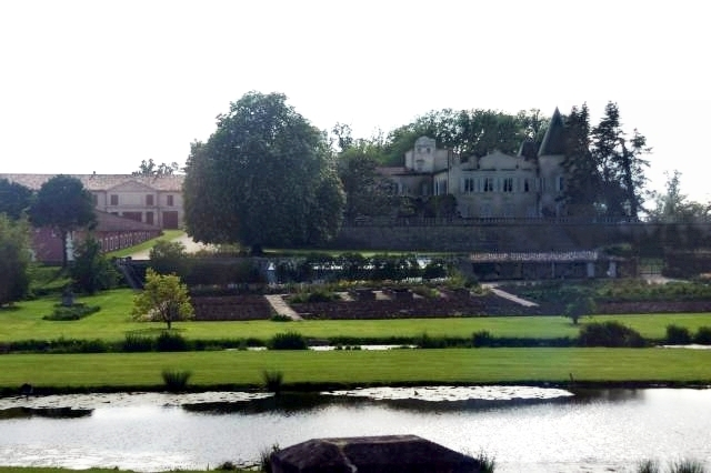 Chateau Lafite Rothschild